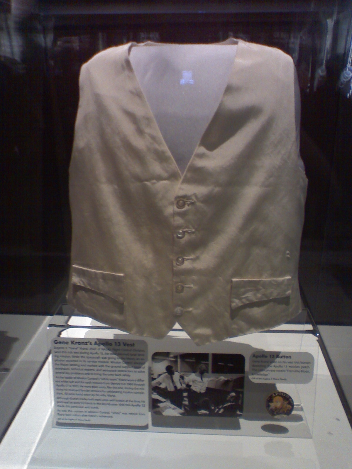 A photo of the vest and pin worn by Gene Kranz during the Apollo 13 mission.